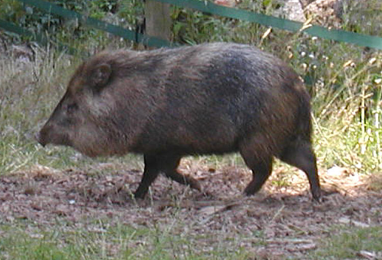 Peccary (Peccari tajacu) at Paignton Zoo, Devon, England.